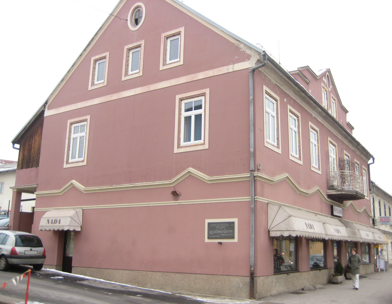 Place of slovenian writer Janez Svetina's death in Gornja Radgona